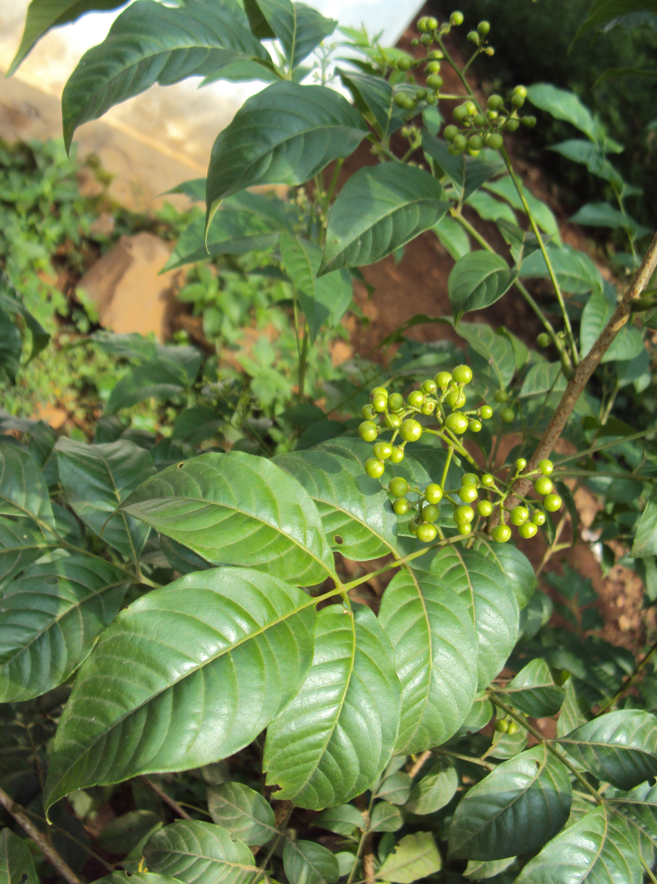 Cipadessa baccifera - Melia baccifera